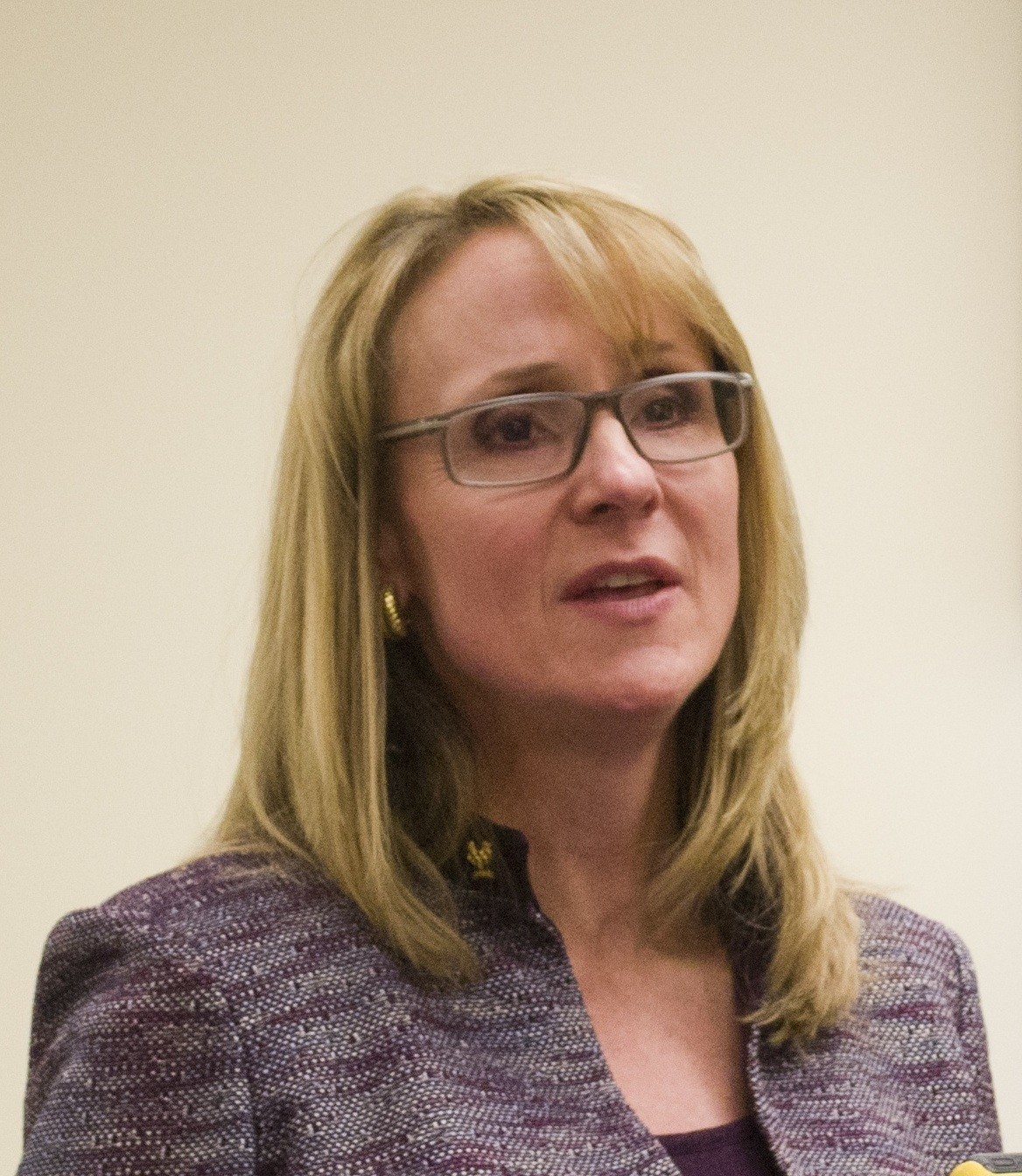 Nancy Hogshead-Makar speaking at the 26th Annual National Girls and Women in Sports Day briefing in Washington, D.C. (Edwin Rios / Medill)